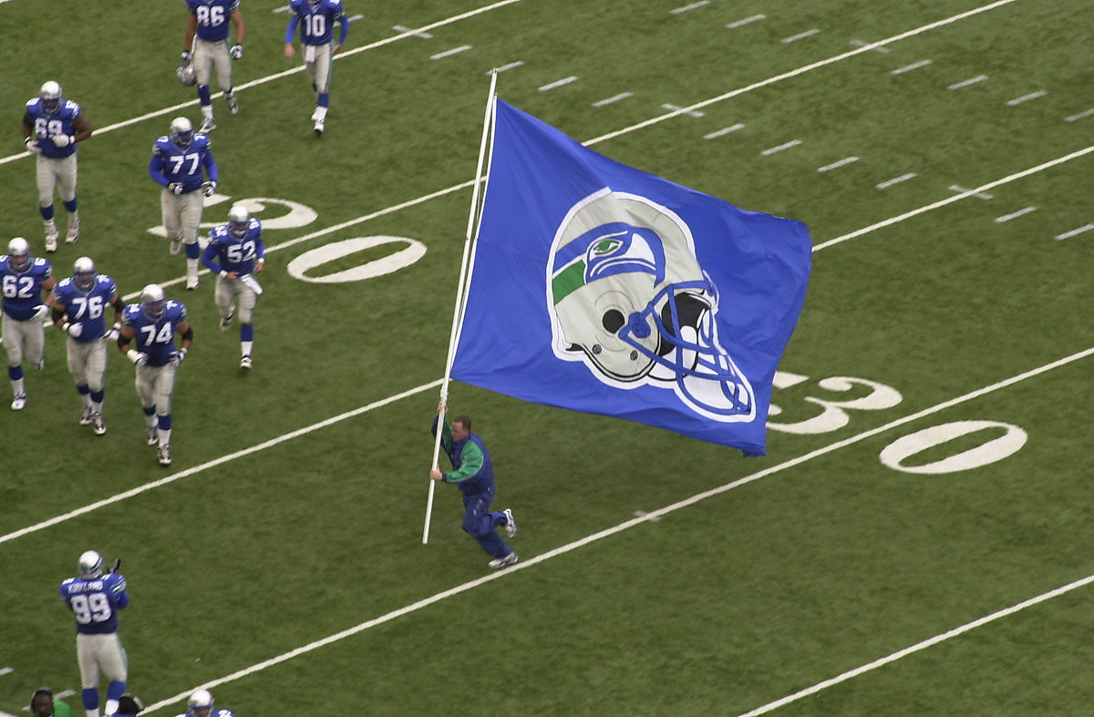 Man on field at Qwest Field (now CenturyLink Field) running with Seahawks flag.